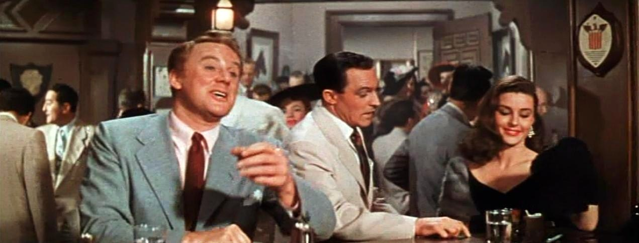 L. to R. : Van Johnson, Gene Kelly & Elaine Stewart in Brigadoon - trailer (cropped screenshot)